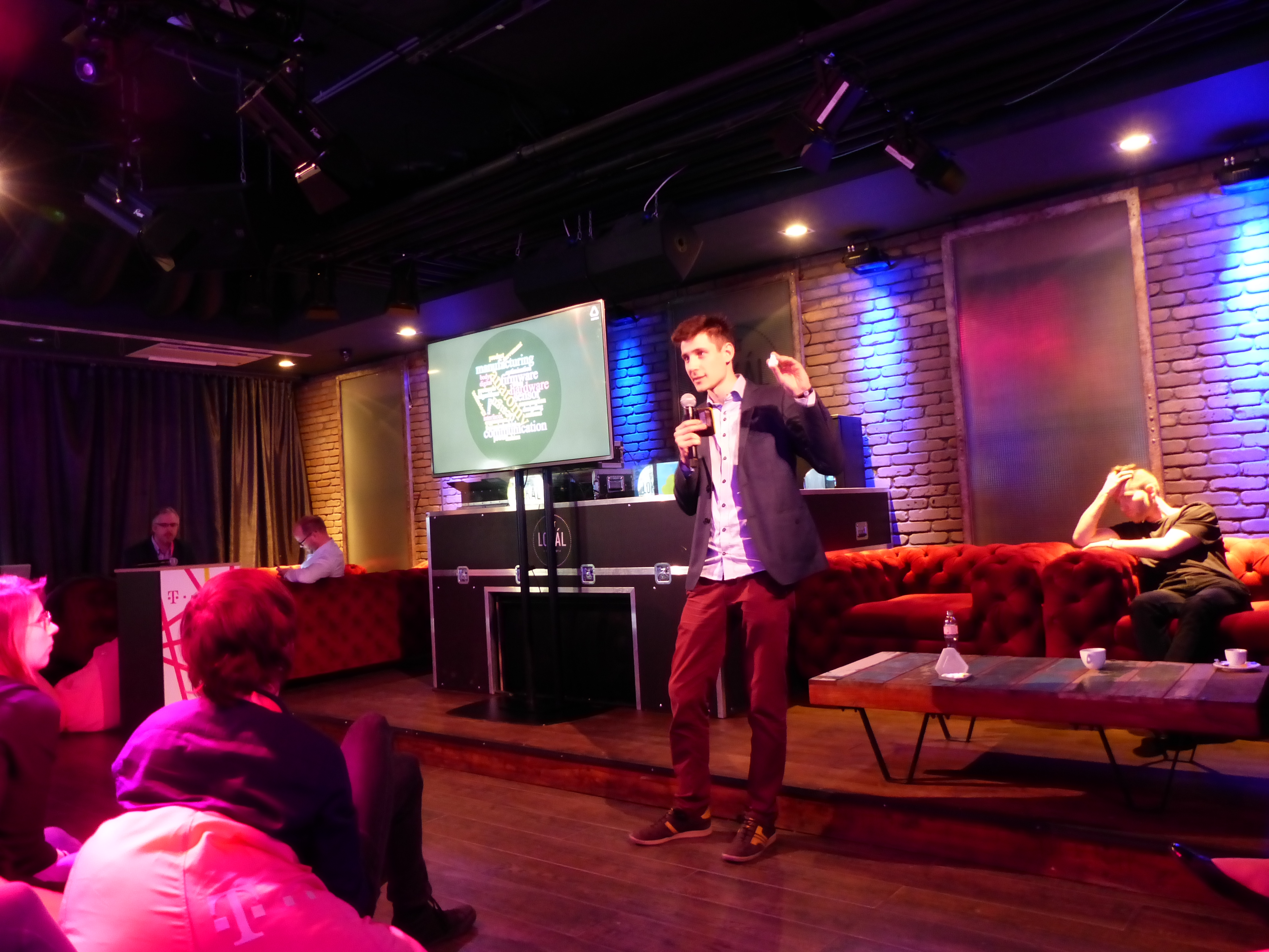 SMART 2017 Conference. Budapest, Central Europe. Taken on the 5th of April, 2017, Akvárium in downtown Budapest. Notch - notch motion tracking sensors